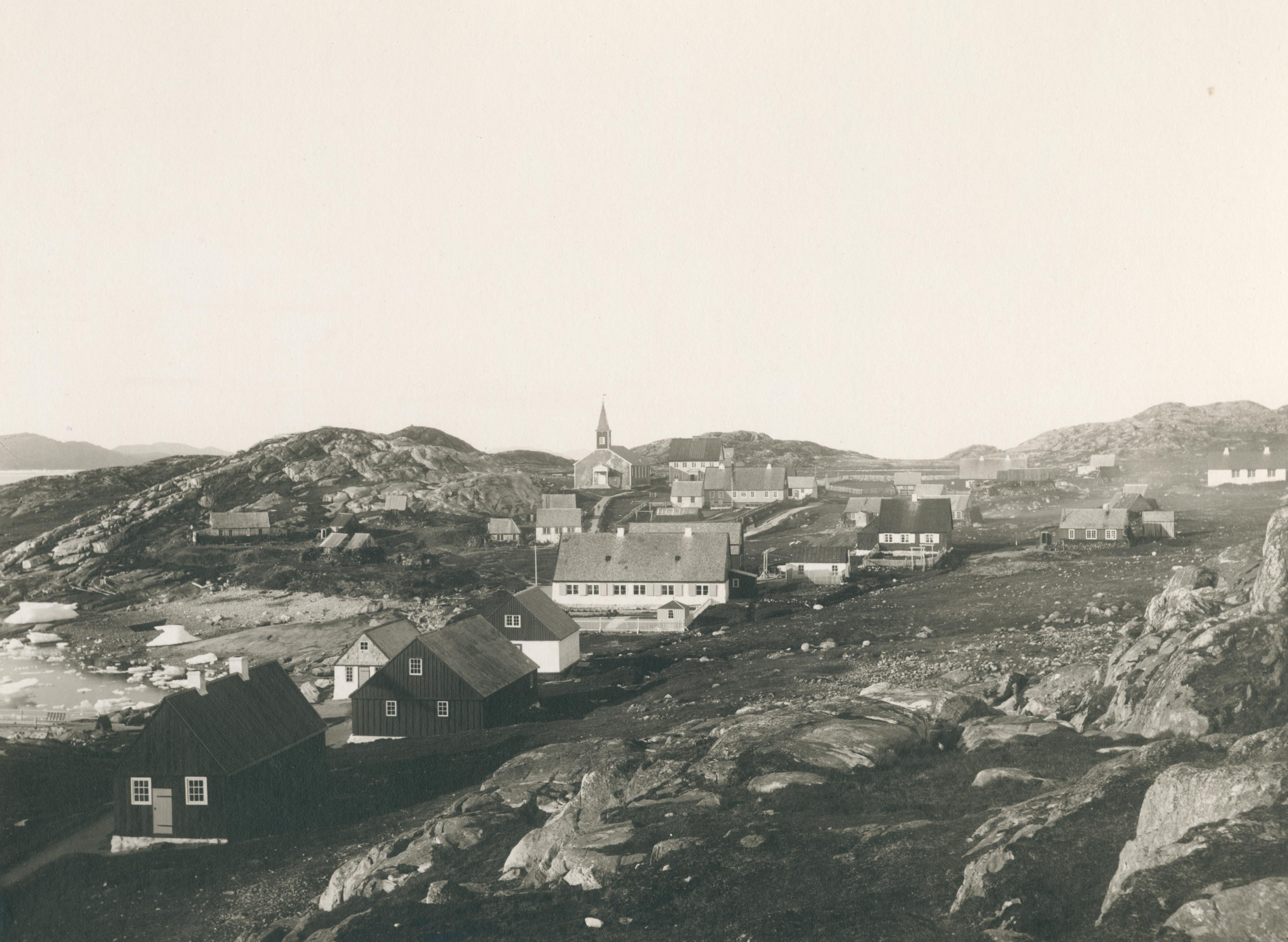 Greenland. The town Godthåb - Nuuk.